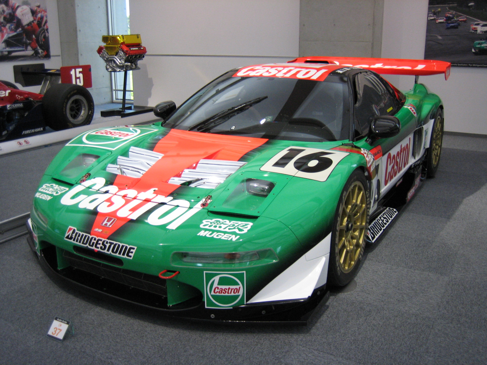 I photoed Honda NSX of race specification in the Honda collection hole.